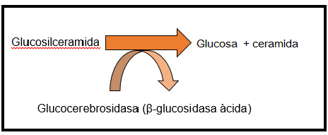 L’enzim beta-glucocerebrosidasa ajuda a descompondre la glucosilceramida en una glucosa i una molècula de ceramida.